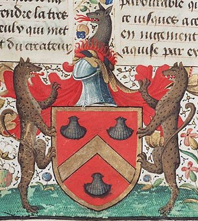 Coat of arms of Philippe de Commines Contents: Augustine, La Cité de Dieu (Vol. I). Translation from the Latin by Raoul de Presles Place of origin, date: Paris, Maïtre François (illuminator); c. 1475; 1478-1480 Material: Vellum, ff. 467, 440x300 (270x185) mm, 46 lines, littera hybrida, Binding: 18th-century brown leather (c. 1769) Decoration: 11 two-column miniatures (257/204x190/177 mm); 277 column miniatures (c. 120x80 mm); 11 illustrations in the margin (coats of arms); decorated initials with border decoration Provenance: made for Jacques d'Armagnac, duke of Nemours (1433-1477) and after his capture continued for Philippe de Commines (1447-1511), lord of Argenton (coats of arms in margin and on edge). Purchased in 1751 at the sale of J.-A. Crozat de Tugny (1696-1751) at Thiboust, Paris,by L.-J. Gaignat of Paris; purchased in 1769 at the Gaignat sale at G.F. De Bure le Jeune, Paris (cat. 1 Febr., no. 242) by Gerard Meerman (1722-1771) of Rotterdam, later The Hague; by descent to his son Johan Meerman (1753-1815); acquired between 1816 and 1824 by Willem H.J vanWestreenen van Tiellandt (1783-1848) of The Hague; by legacy to the kingdom of the Netherlands Annotation: Vol. II now: Nantes, BM, fr. 8